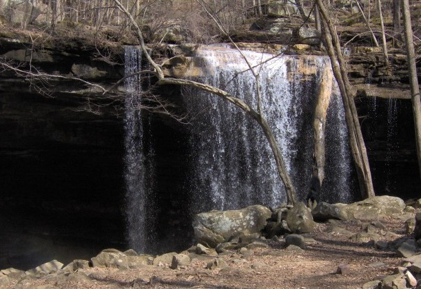 Big Laurel Falls in the Virgin Falls Pocket Wilderness in White County, Tennessee, located in the Southeastern United States. A stream flows into a cave behind this waterfall, leading some to speculate its the same underground stream that feeds Sheep Falls to the southwest. Both waterfalls can be accessed by the Virgin Falls Trail.